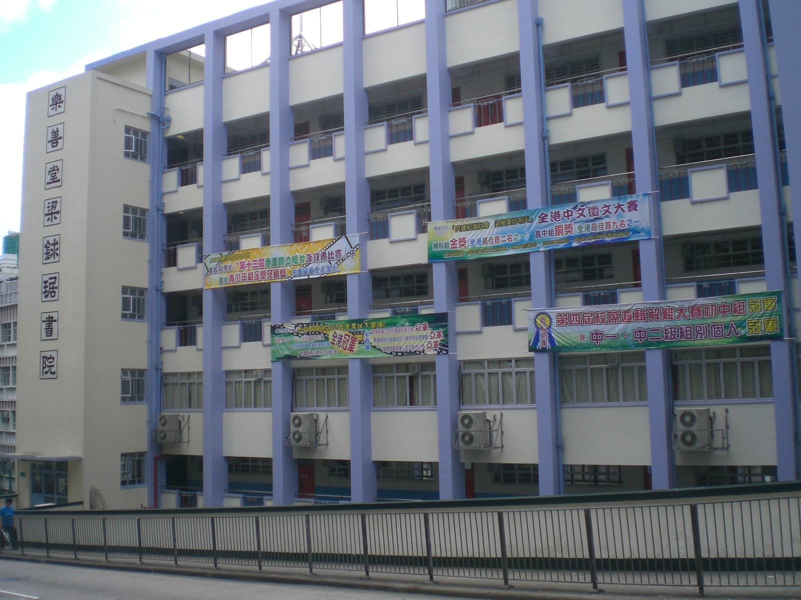 樂善堂梁銶琚書院, 西營盤醫院道